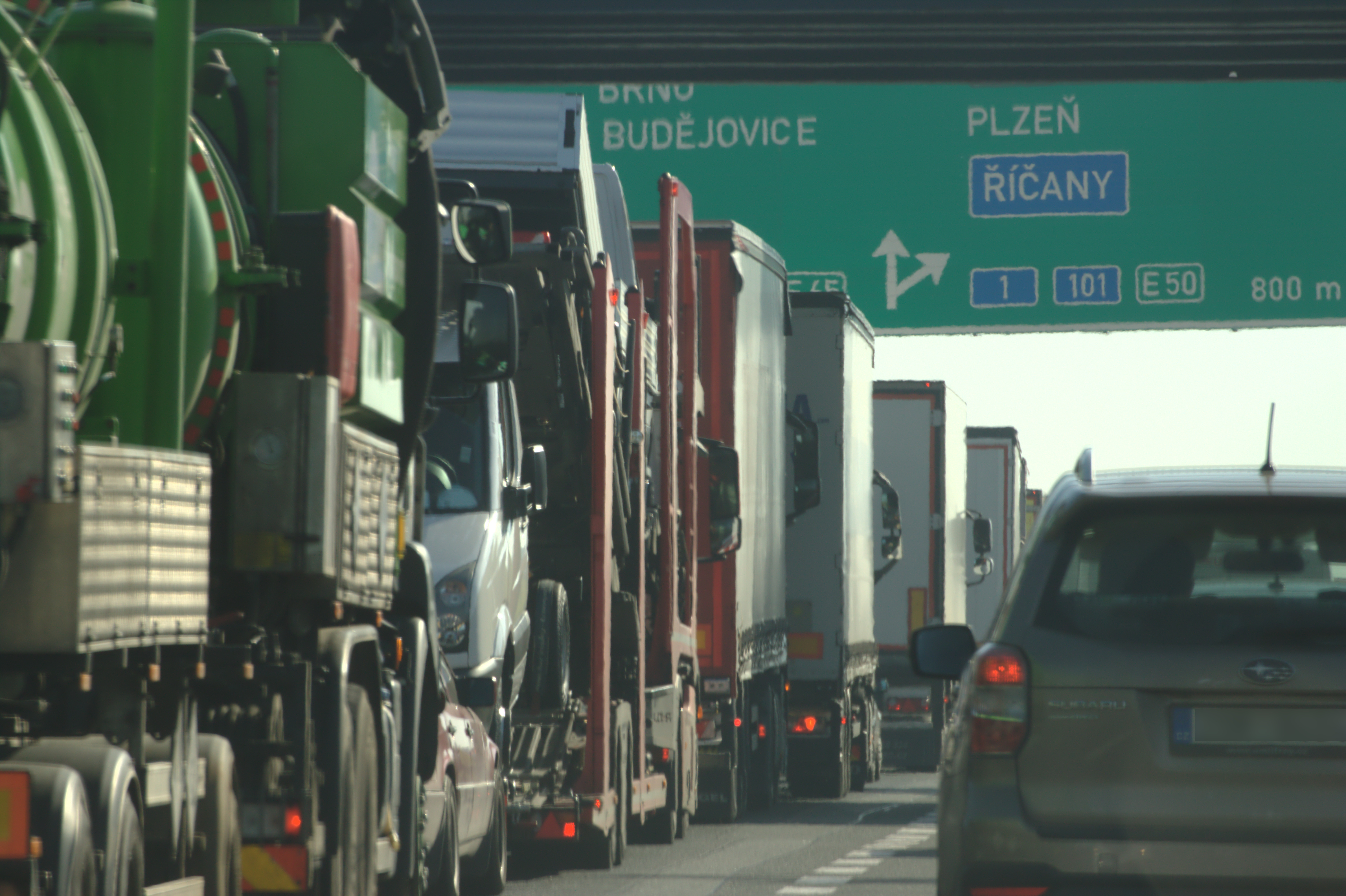 Cars in a line due to a congestion close to the D1 Highway and Prague Ring intersection south from Prague, CZ